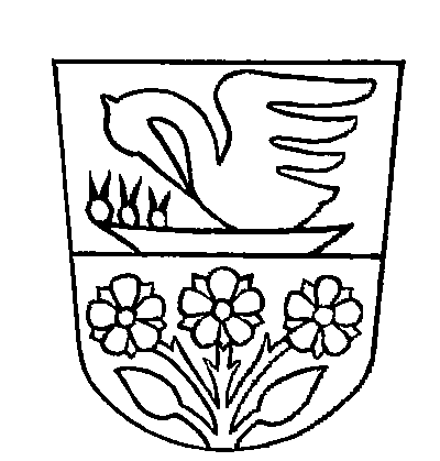 Shield of the Cappelen family coat of arms